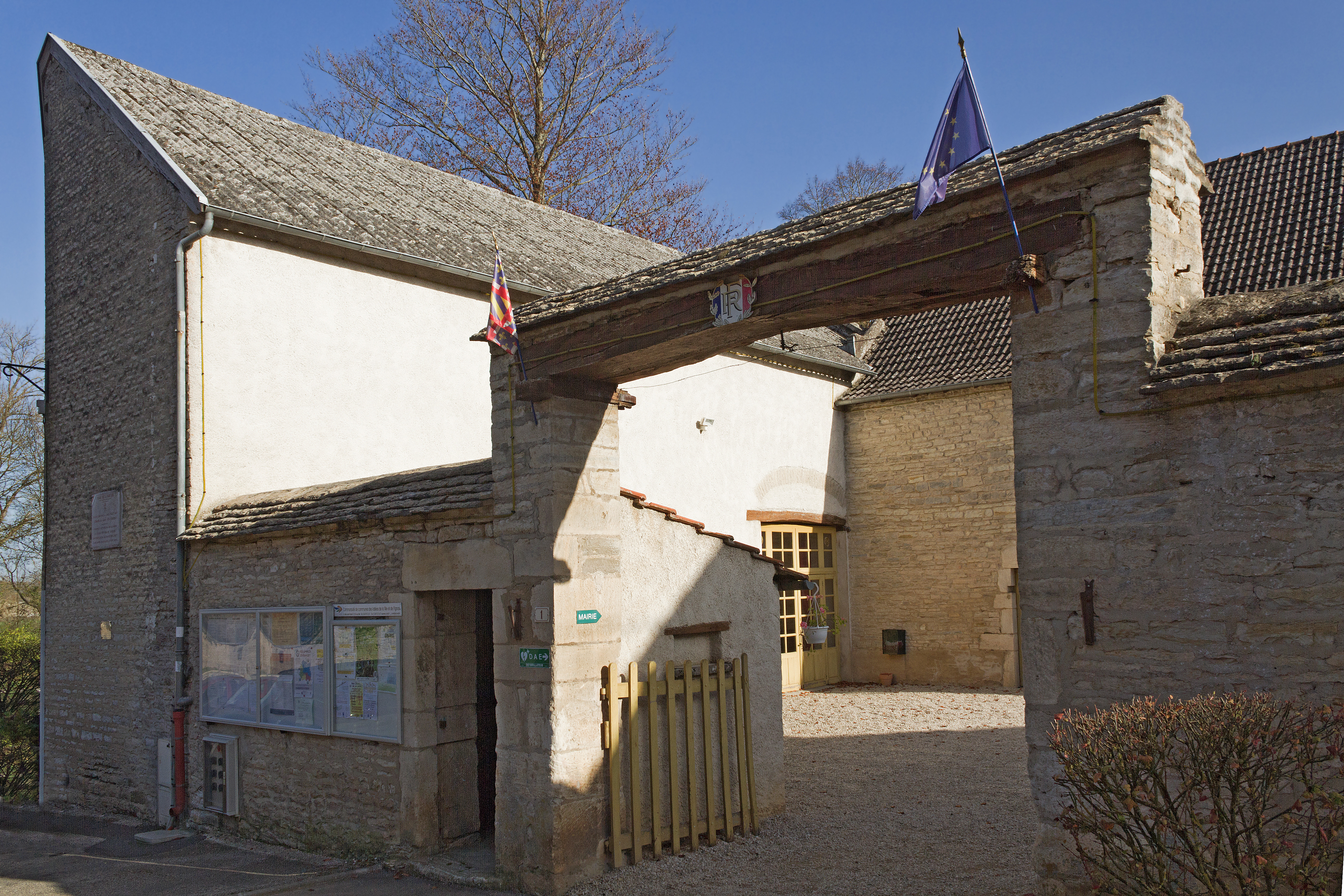 Townhall of Villecomte